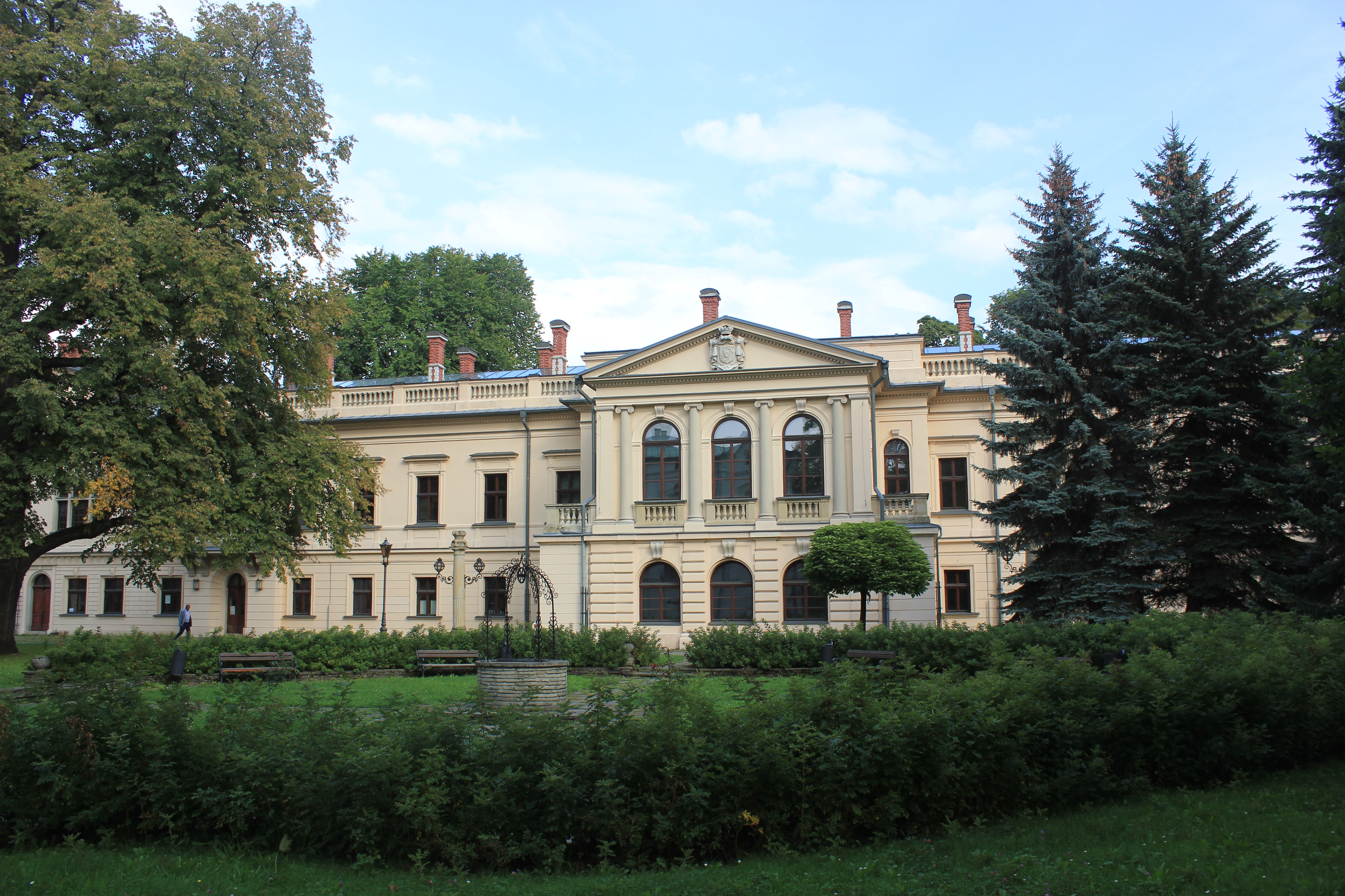 Żywiec - New Castle, Habsburg Palace